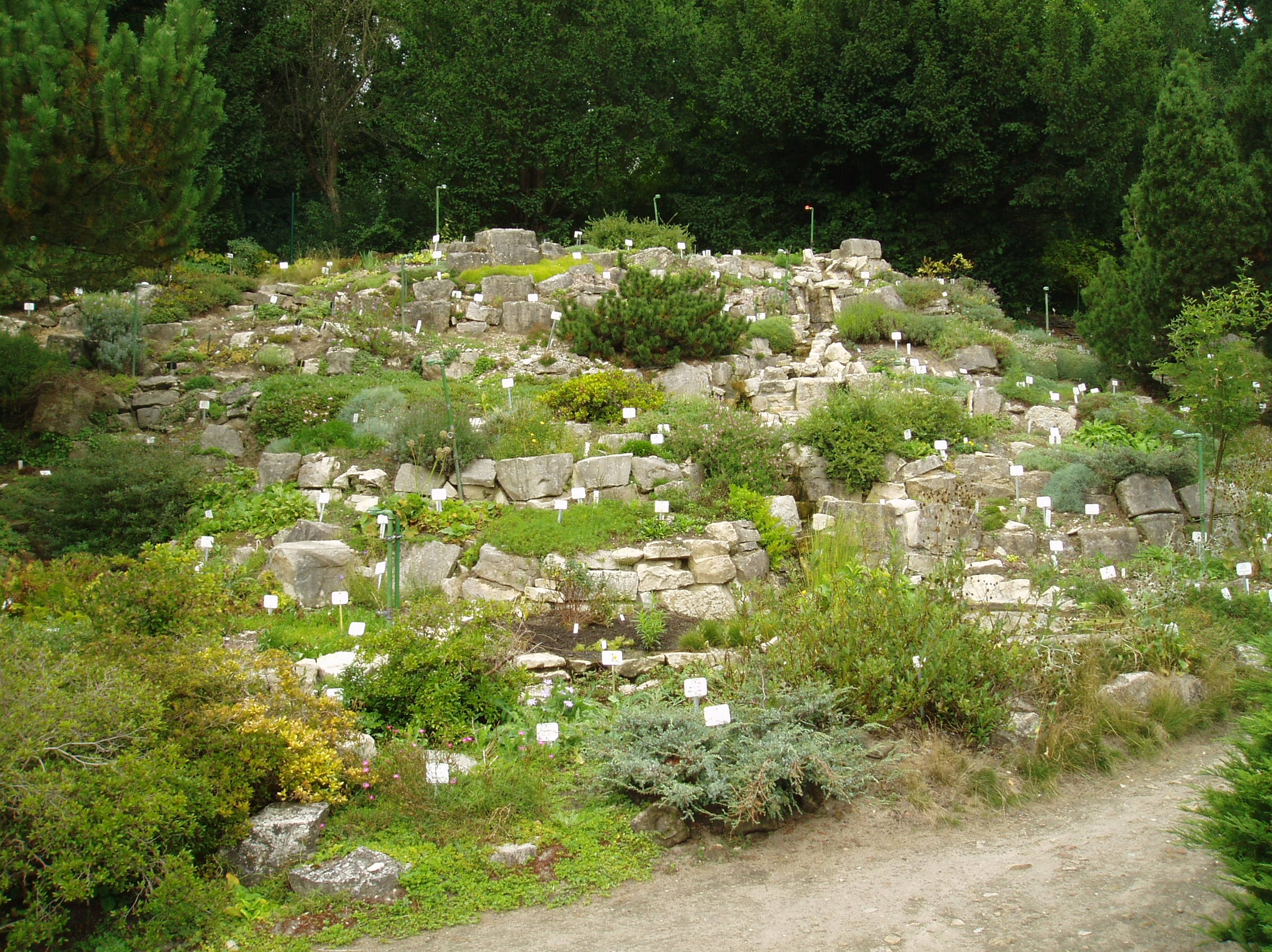 Botanical garden Potsdam, "Paradiesgarten", Alpinum